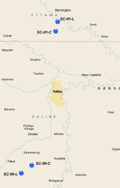 Schilling AFB Defense Area Nike Missile Sites